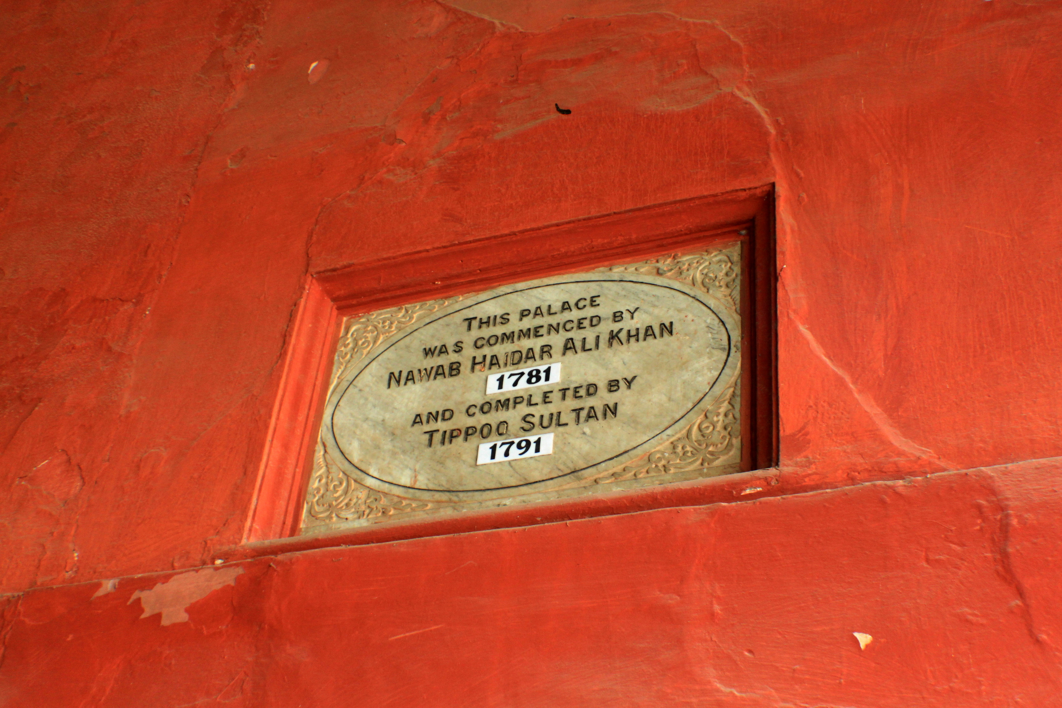 Tipu Sultan's Palace info on its initiators